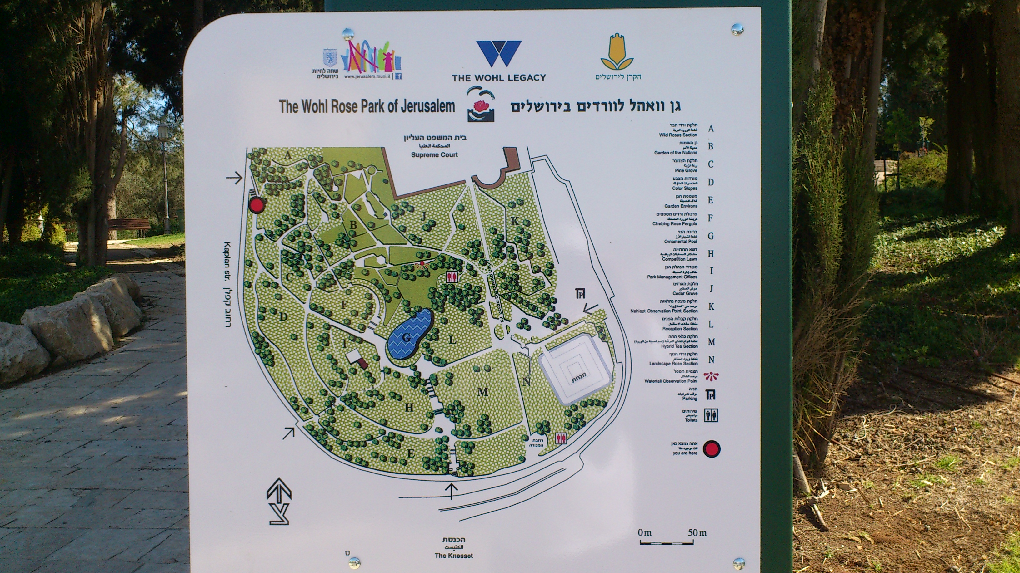 Wohl rose park